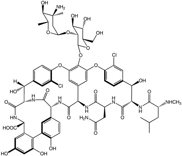 Molecular structure of Vancomycin. Created with ChemDraw.